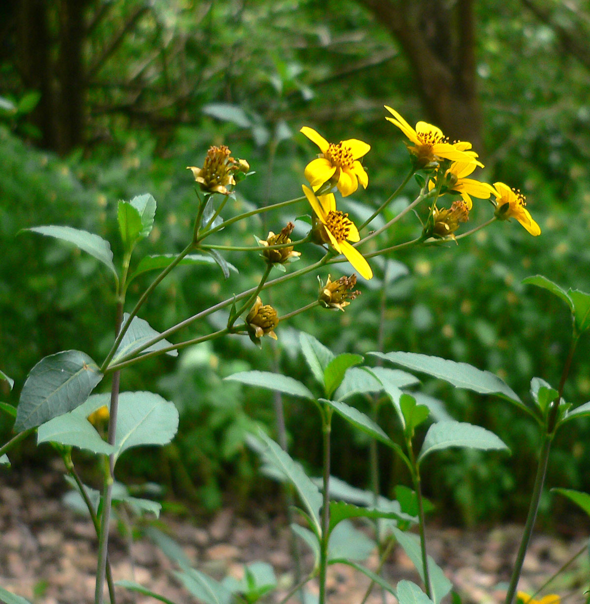 Coreopsis mutica at the San Francisco Botanical Garden